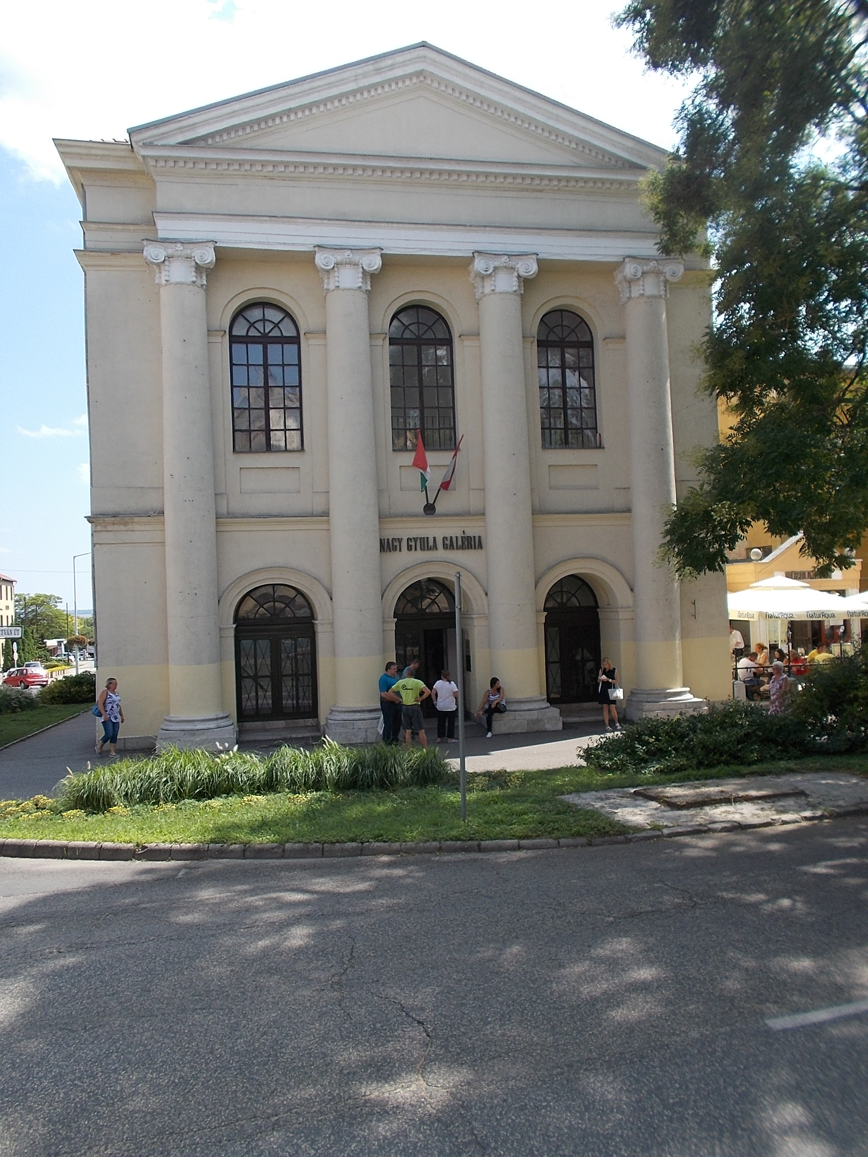 Synagogue, now Nagy Gyula Gallery. Neoo-classicist, built in 1839. Remodelled in the 20th century.- Szent István út, Várpalota, Veszprém County, Hungary.